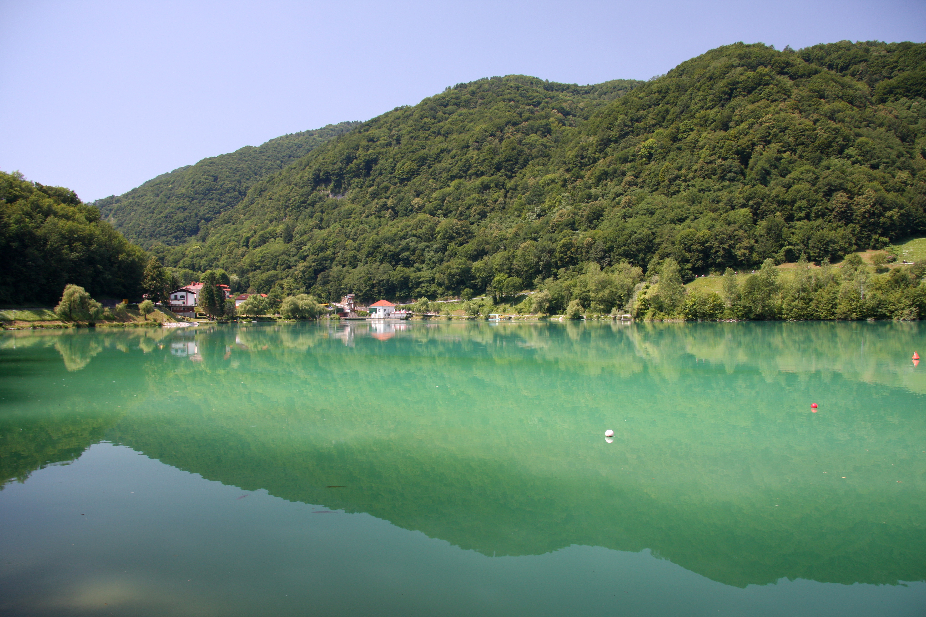 Lake in Most na Soči, Slovenia.